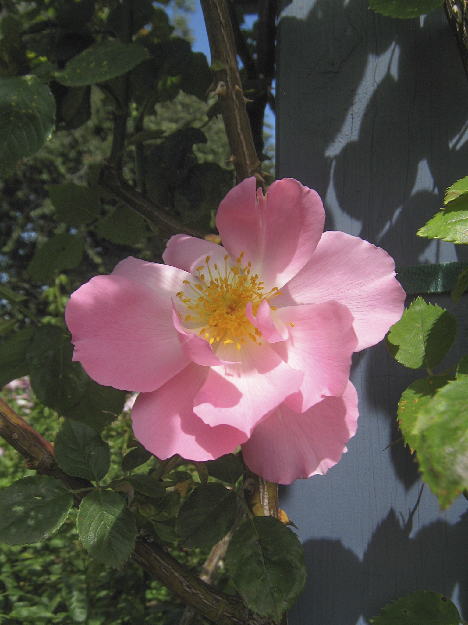 Rose 'Gwen Nash', Hybrid Tea by Alister Clark 1920; Photographed in the Alister Clark Memorial Rose Garden, Bulla, Victoria